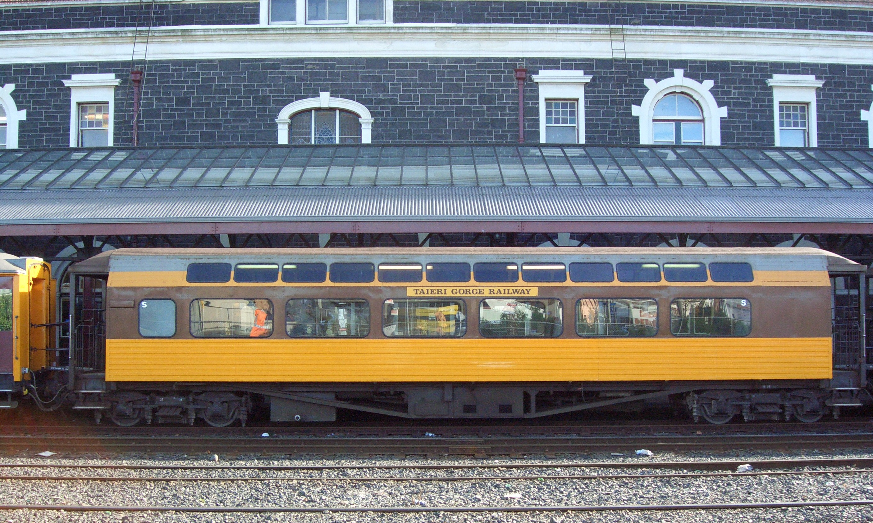 In-house built servery carriage of Taieri Gorge Railway at Dunedin Railway Station